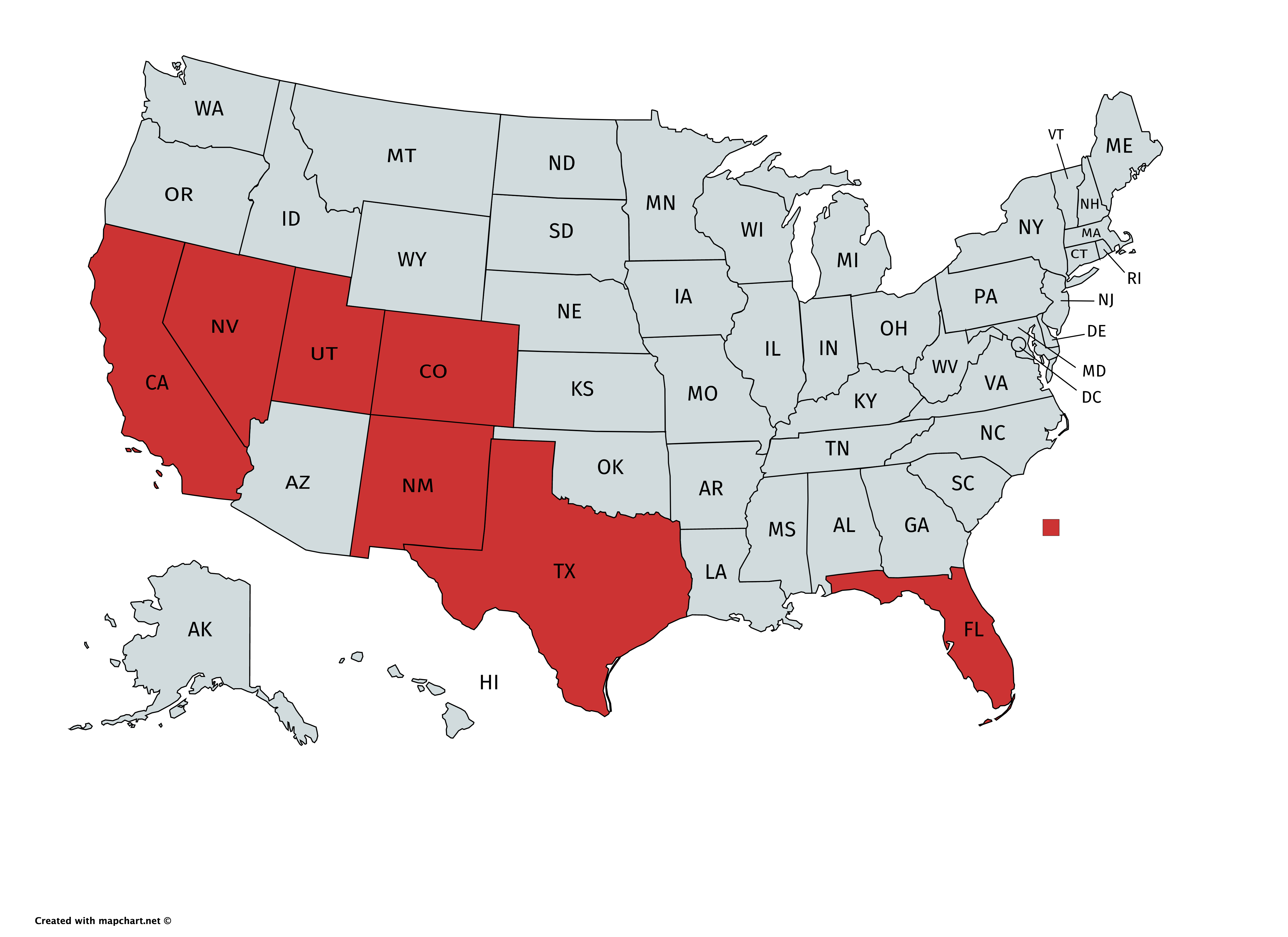 Map of where the fly L. torrens can be found in the States